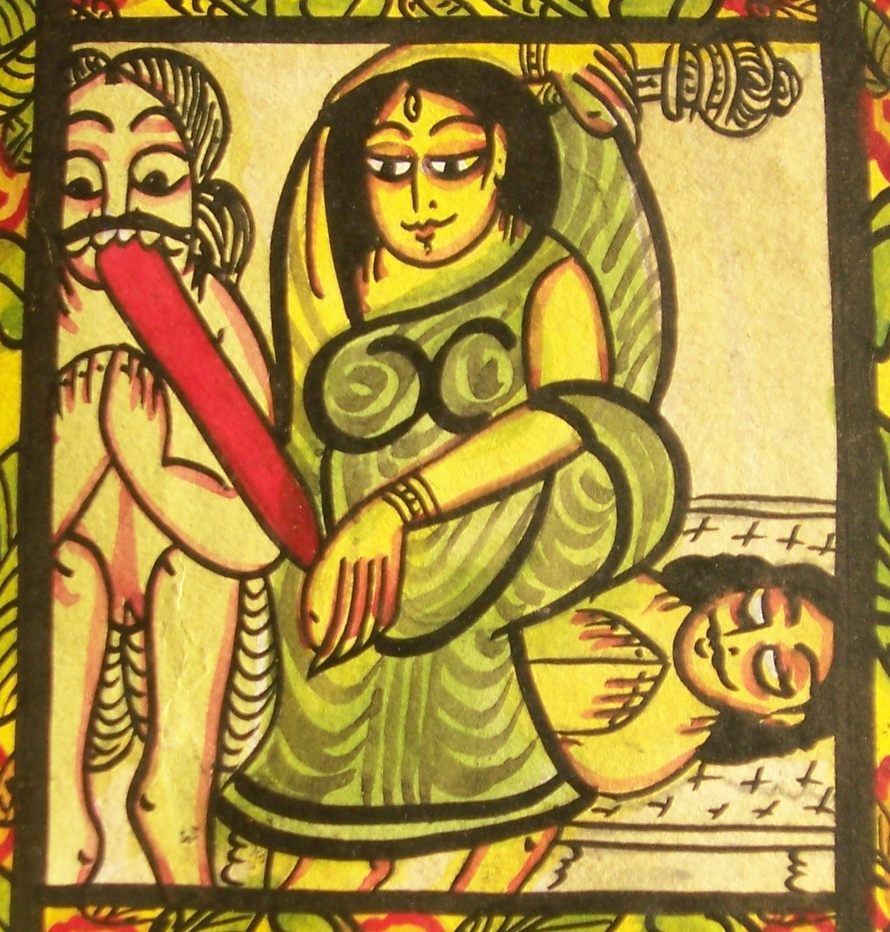 An image of Bagalmukhi depicted in a Patachitra from Pingla, Paschim Medinipur district, West Bengal, India